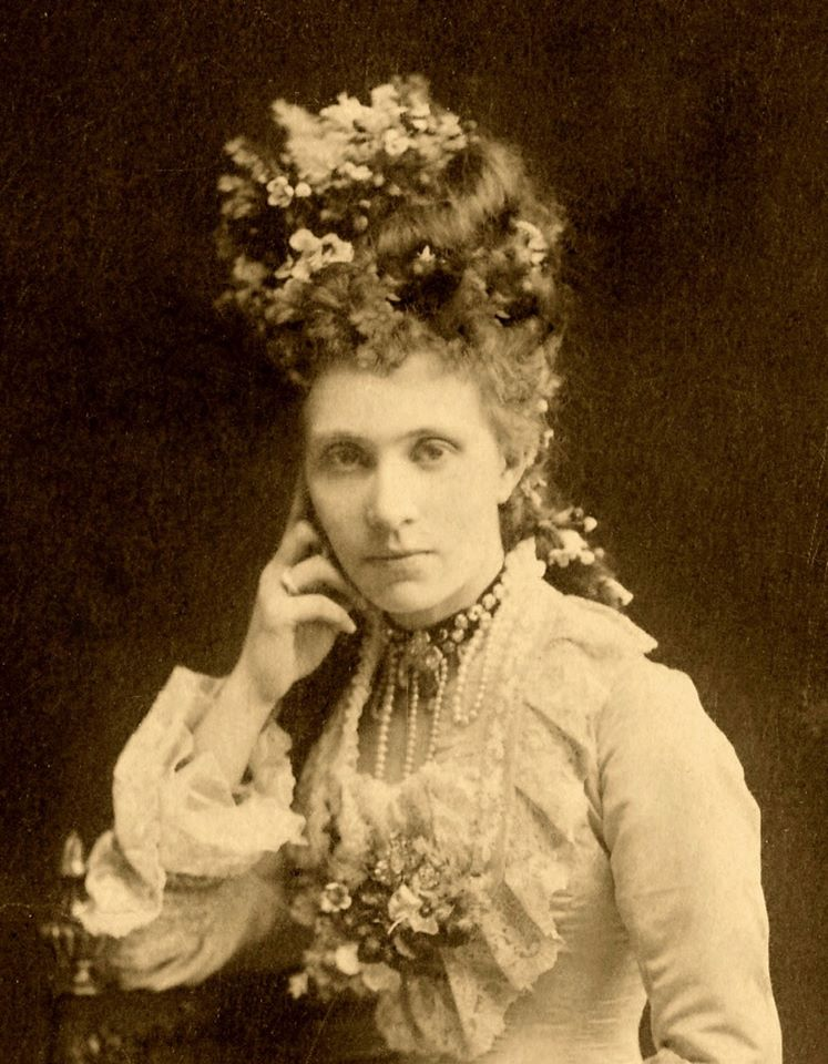 Maria das Neves, Duchess of San Jaime, neé Infanta of Portugal.